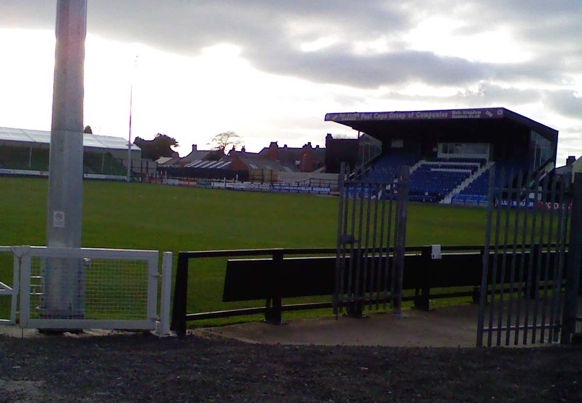 Marston Road, home of Stafford Rangers F.C., photographed by me, sticking my had through a hole in a locked gate!!!